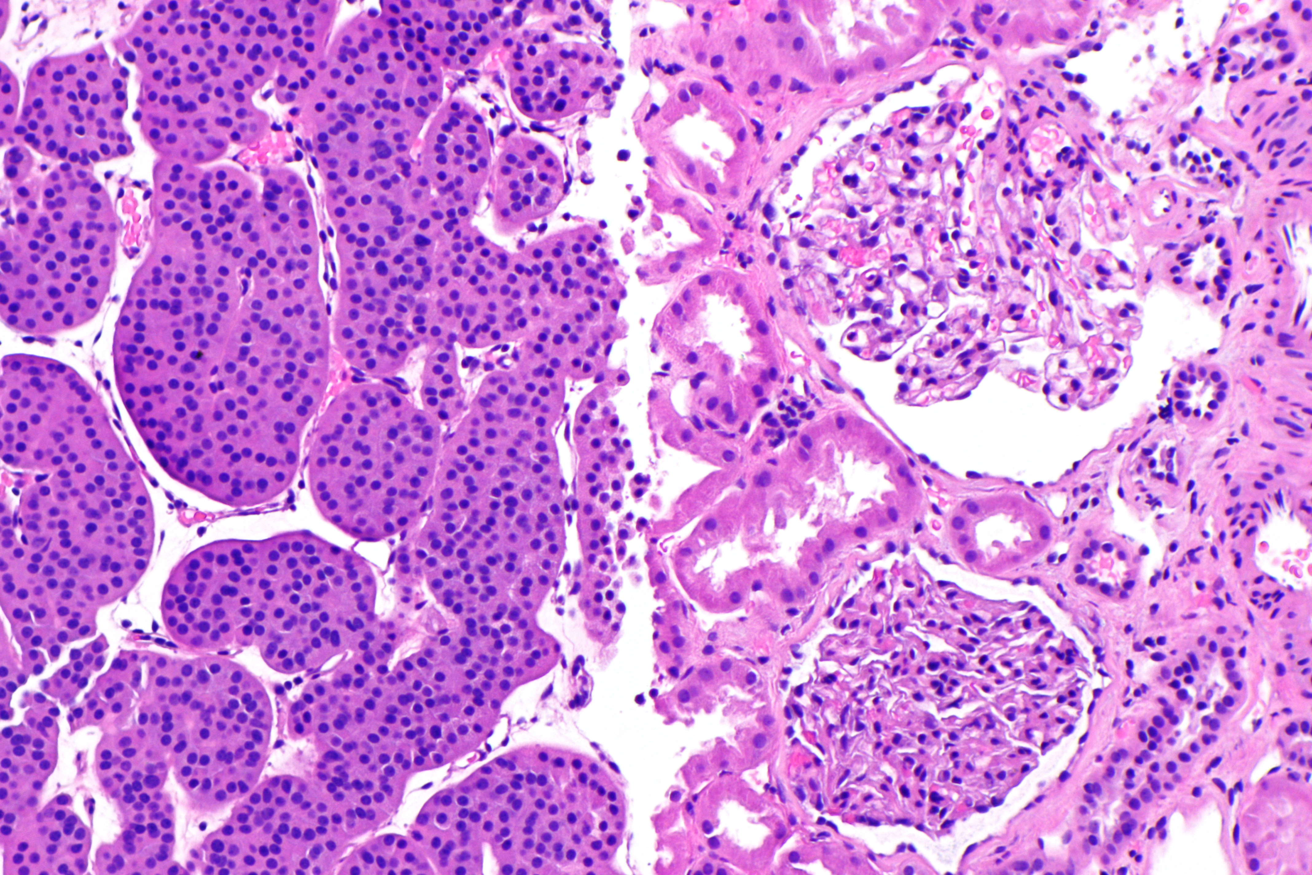 Micrograph of a renal oncocytoma, also oncocytoma of the kidney. Kidney biopsy. Related images RO - low mag. RO - low mag. RO - intermed. mag. RO - high mag.